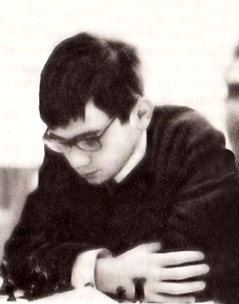 Jerzy Lewi (22 April 1949, Wrocław – 30 October 1972, Lund) - polish chess player, who emigrated to Sweden